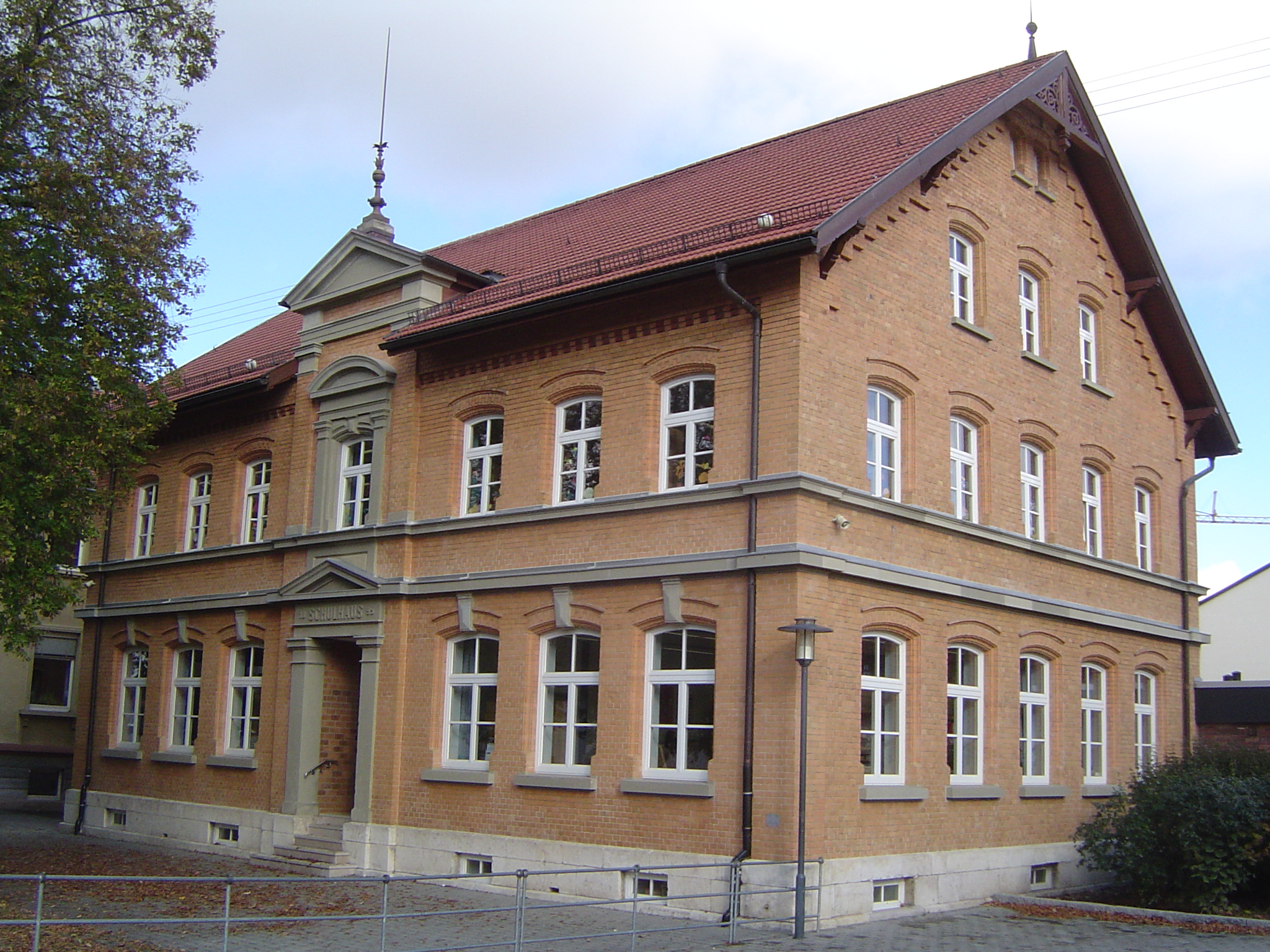 The school of Nendingen.